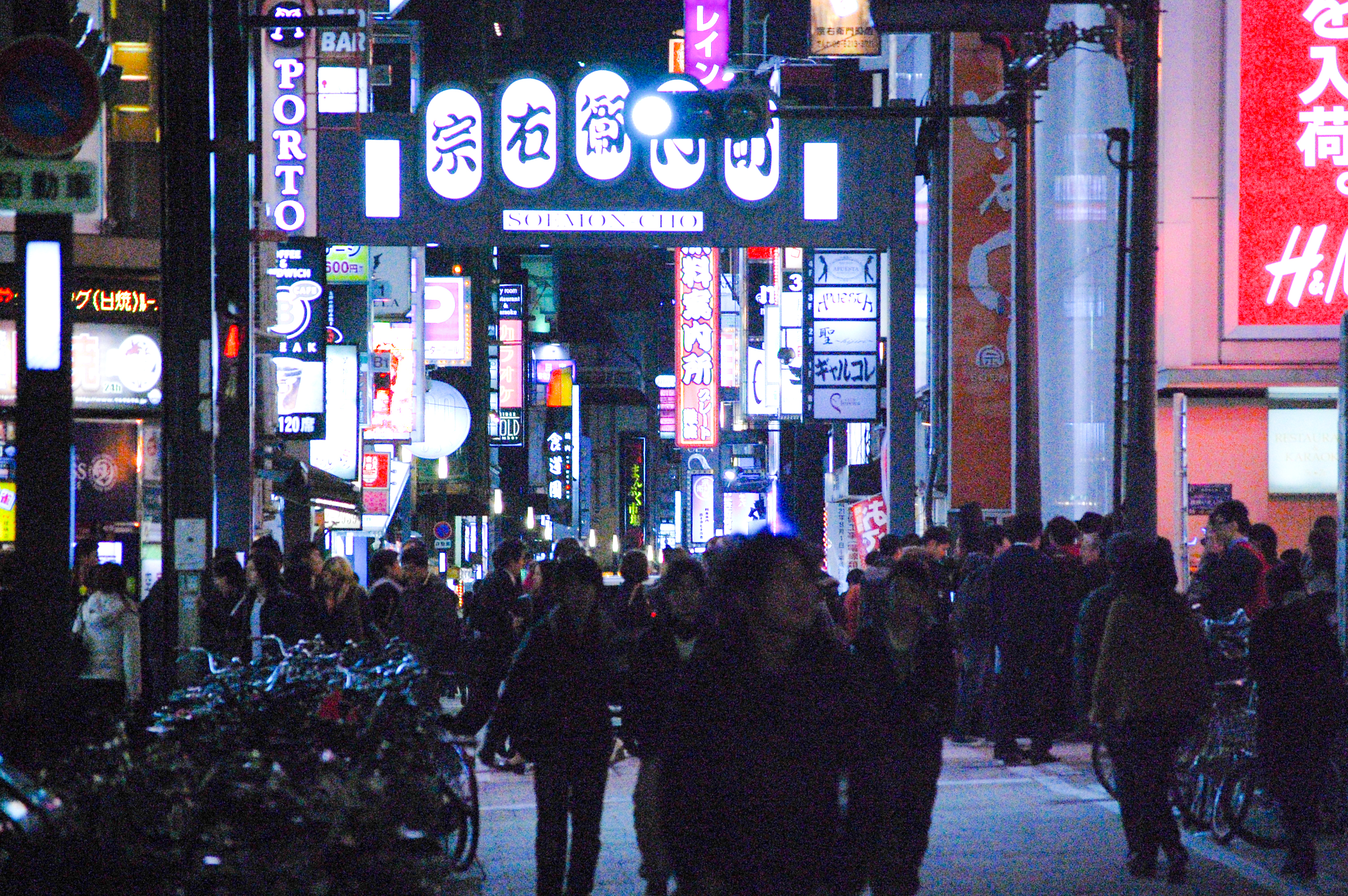 The Soemoncho district in Minami, Osaka